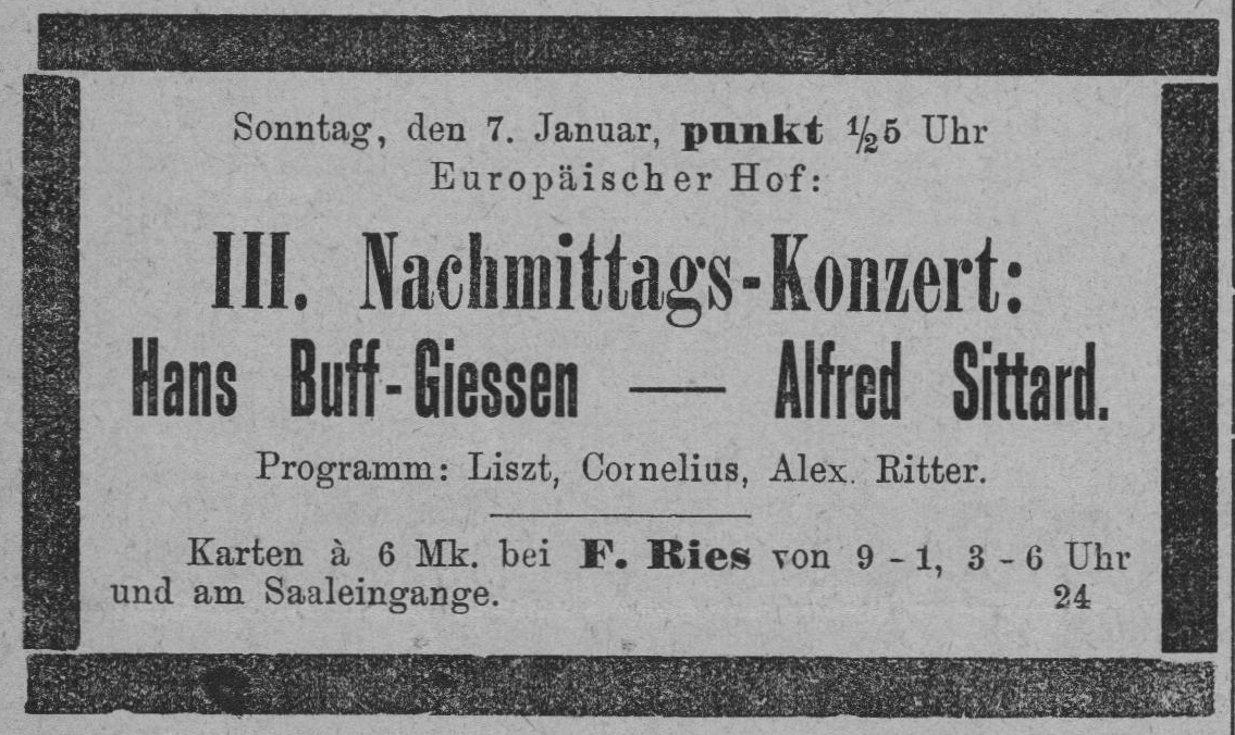 Scan from the Dresdner Journal, 1906